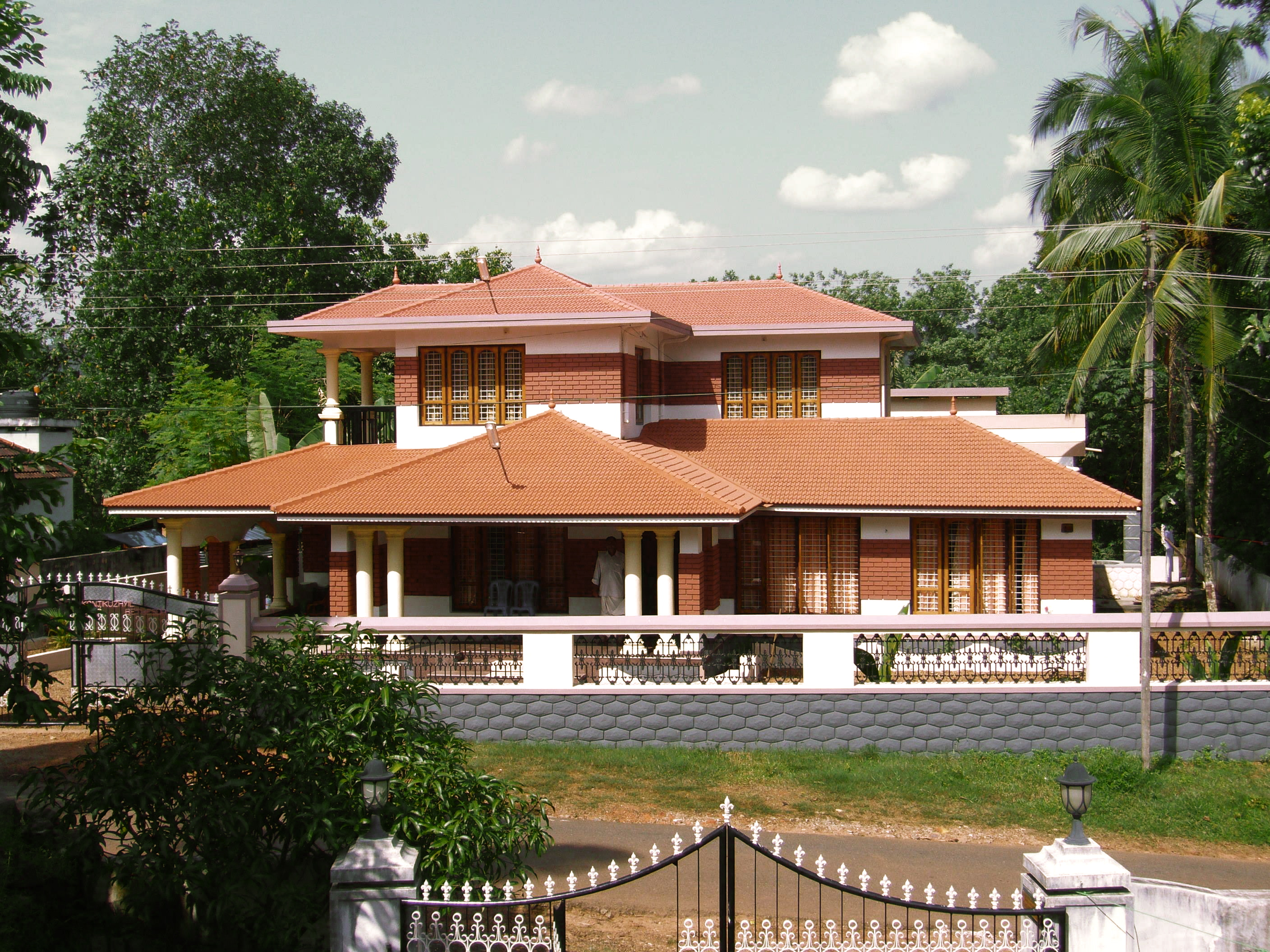 Benjamin Matthew Licensing Category:Images of India